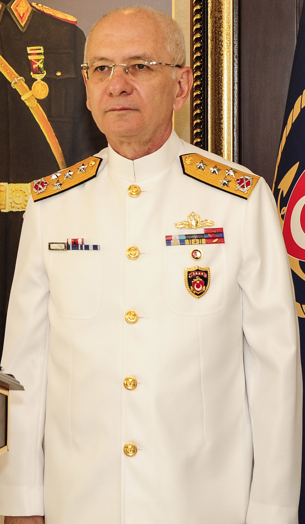 ANKARA, Turkey (June 20, 2012) Chief of Naval Operations (CNO) Adm. Jonathan Greenert poses for a photo with Turkish Naval Forces Commander Adm. Murat Bilgel at the Turkish Naval Forces Command headquarters after signing-in, in a special guest's logbook. Greenert met with Bilgel to discuss current and future cooperative efforts. (U.S. Navy photo by Mass Communication Specialist 1st Class Peter D. Lawlor/Released) 120620-N-WL435-180 Join the conversation navylive.dodlive.mil